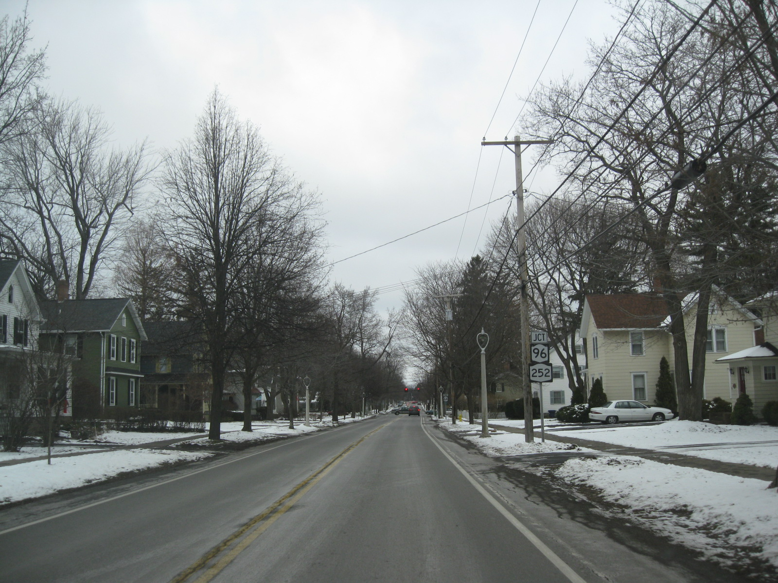 Approaching the northern terminus of New York State Route 64 at New York State Route 96 and New York State Route 252 in Pittsford. The actual junction where the route ends is at the traffic light in the center of the image.